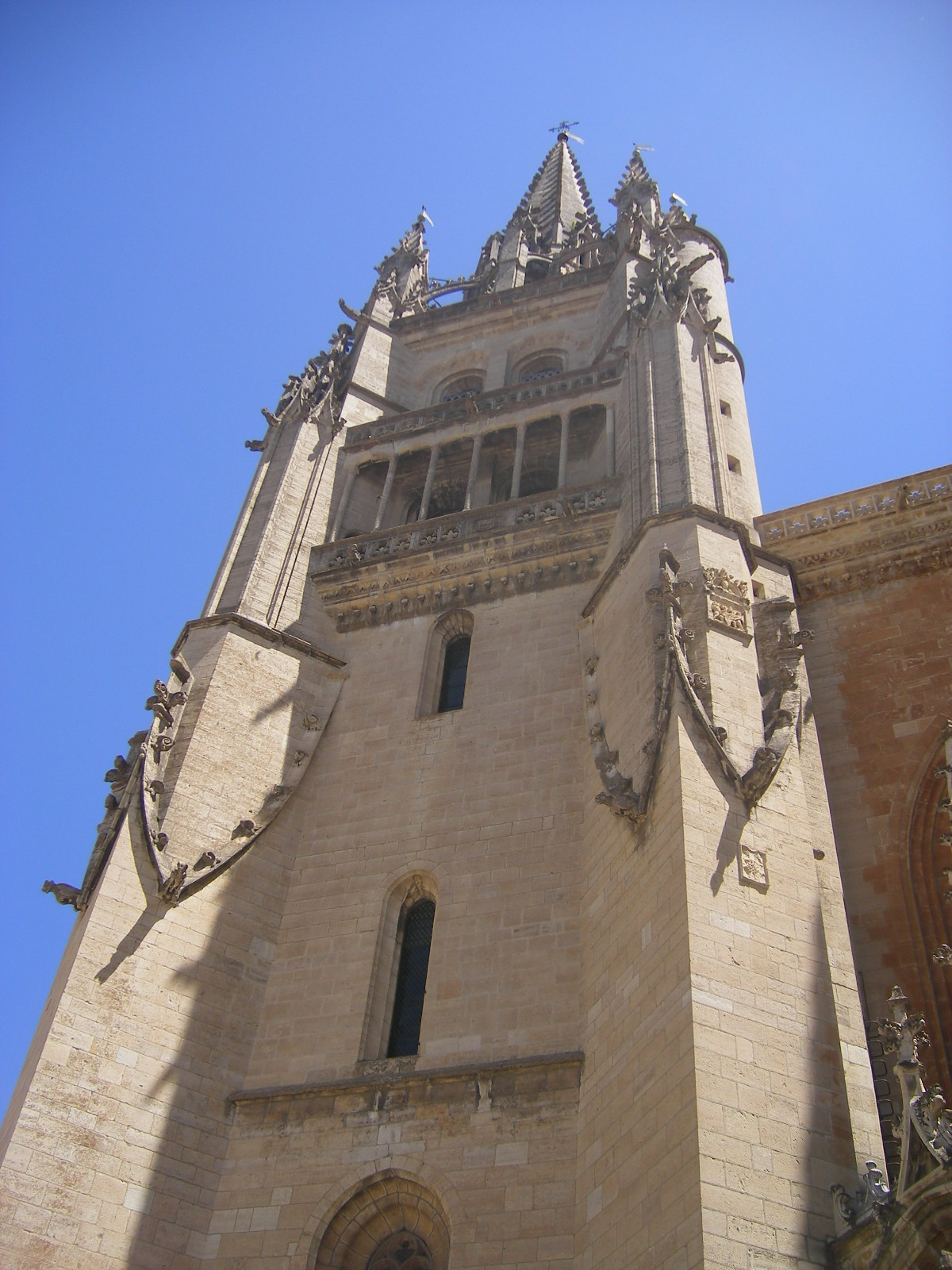 Mende, Cathedral